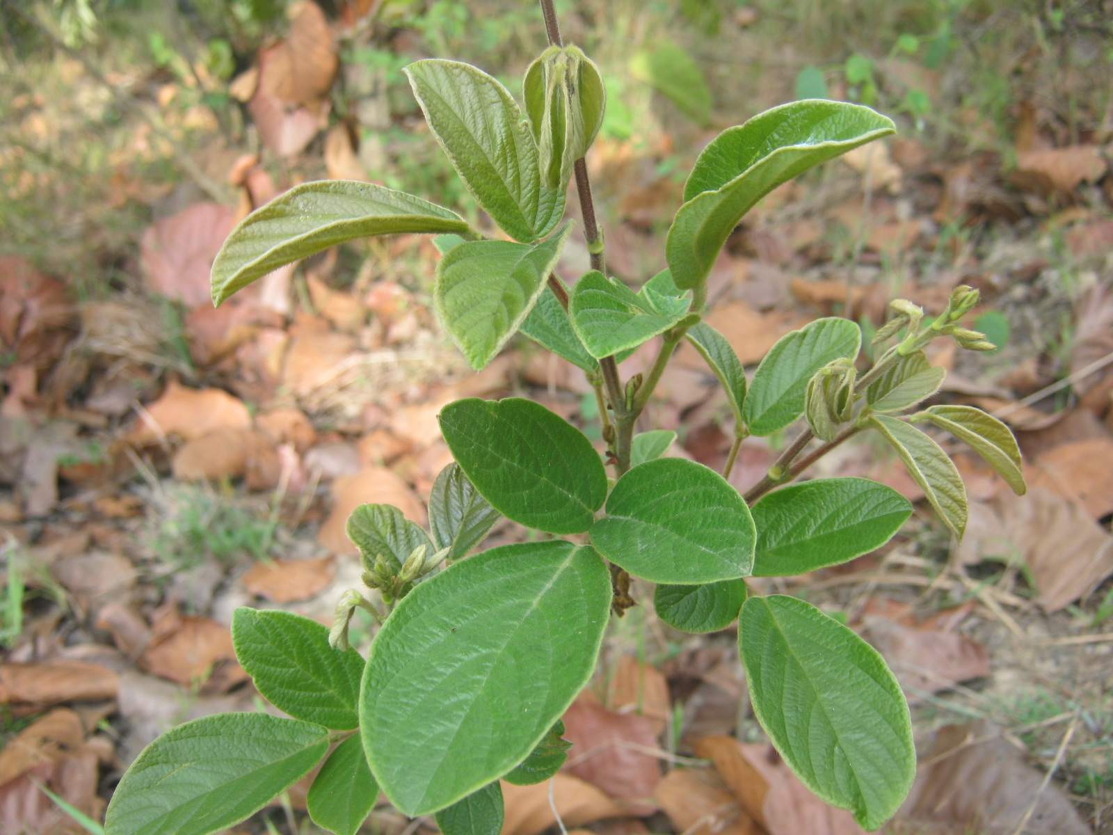 A shrub found in Nepal.